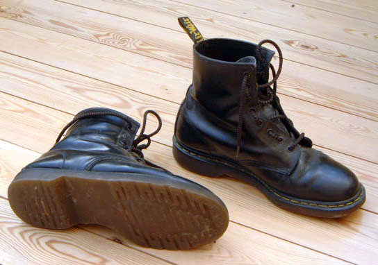 Photo of a pair of Dr. Martens boots, the displayed to show both the stitching and the sole design. Photo taken by Tarquin. The boots belong to the photographer.